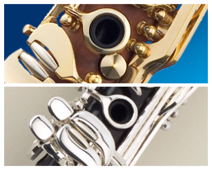 Clarinet, keys lower right